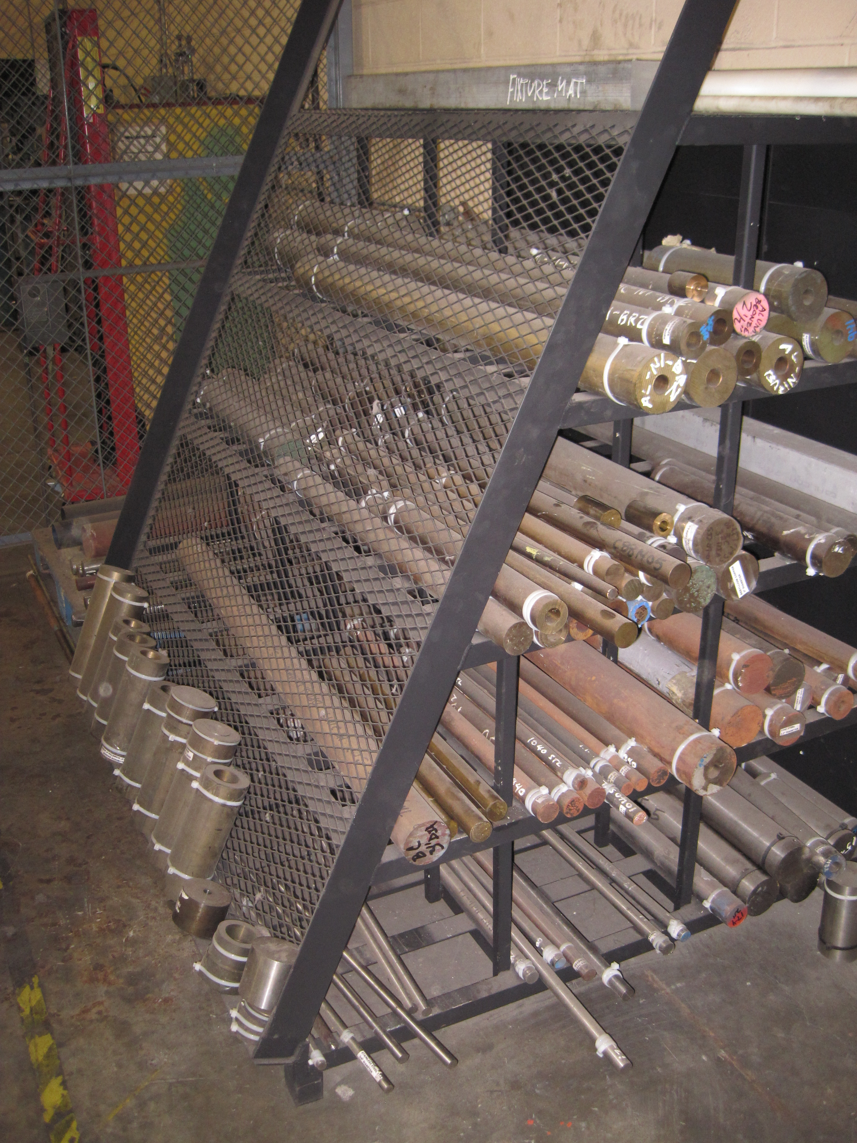 Assorted bar stock for metalworking.